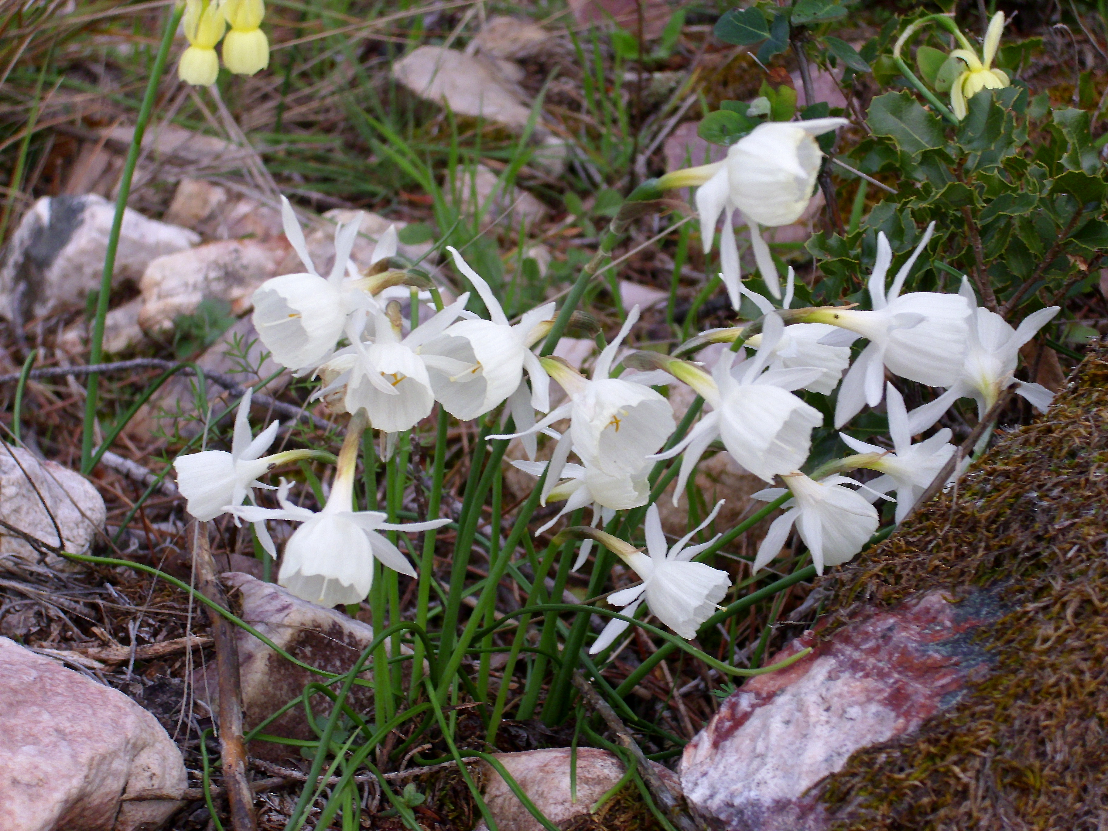 Narcissus × litigiosus habit, Dehesa Boyal de Puertollano, Spain